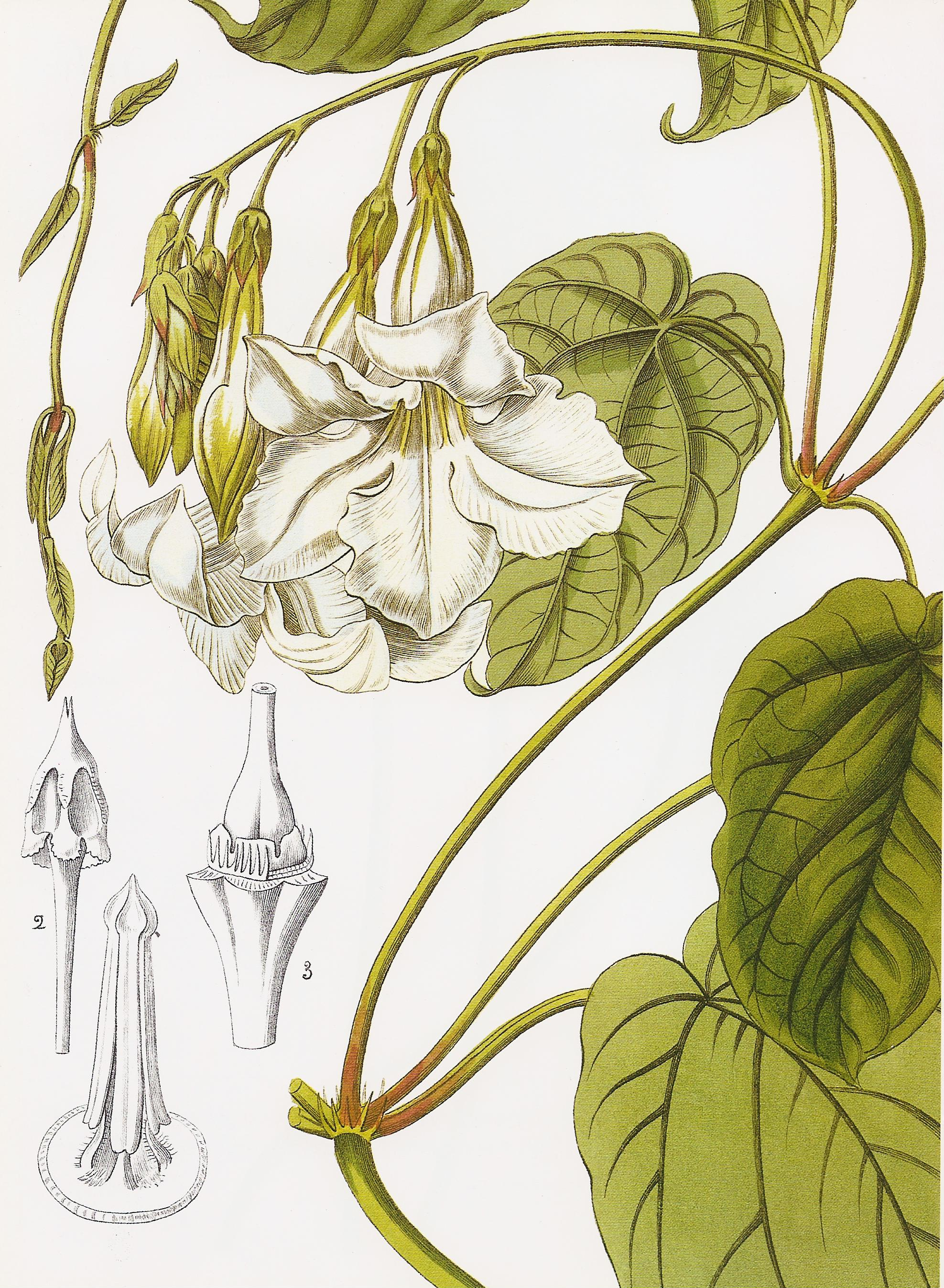 Mandevilla suavolens, a hand-coloured engraving after a drawing by Miss S. A. Drake (fl. 1820s-1840s), from the 26th volume of the Botanical Register (1840), edited by John Lindley. This plant was named by John Lindley.